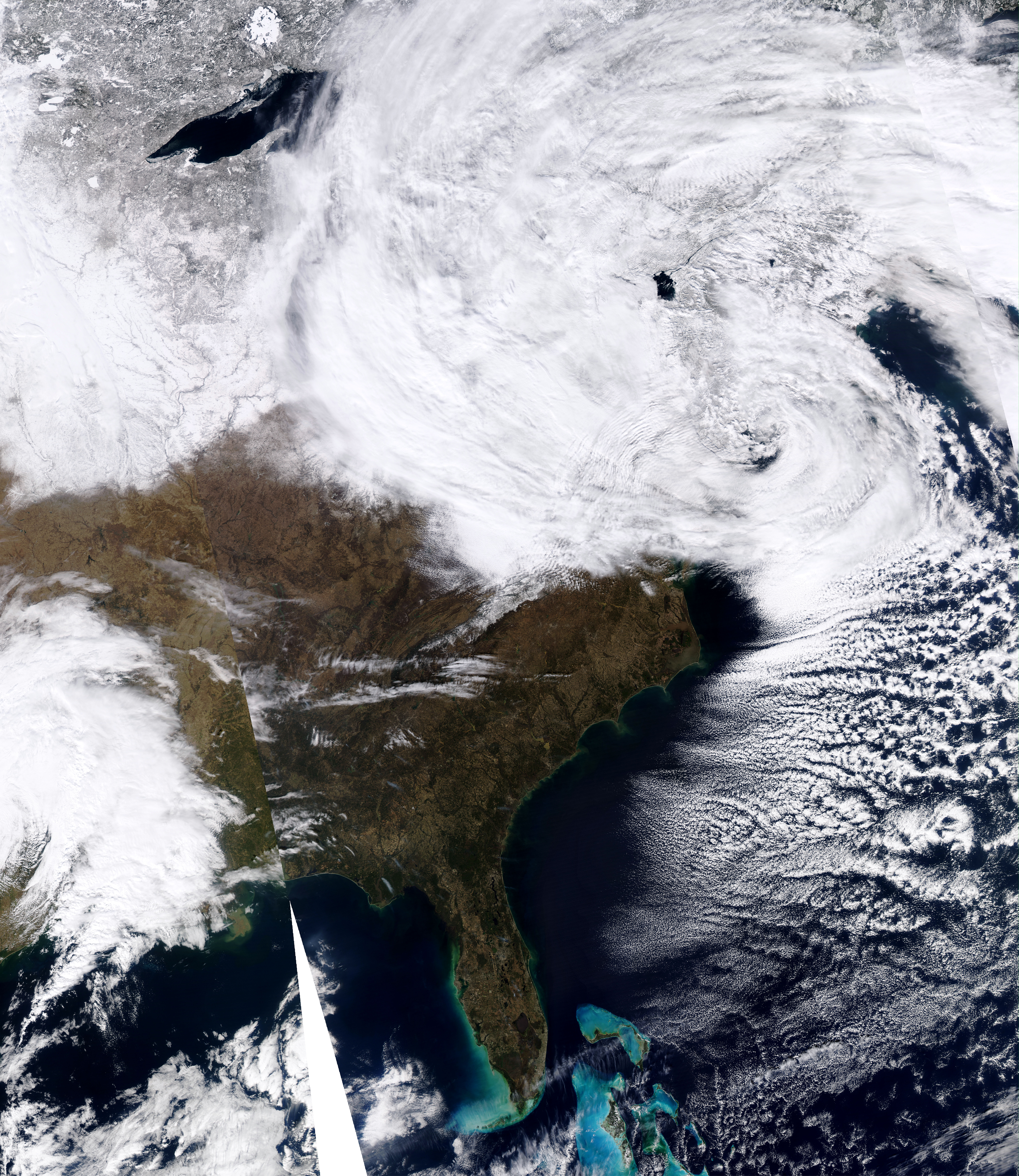 A powerful Blizzard spins close to the New England coast on February 26, 2010.